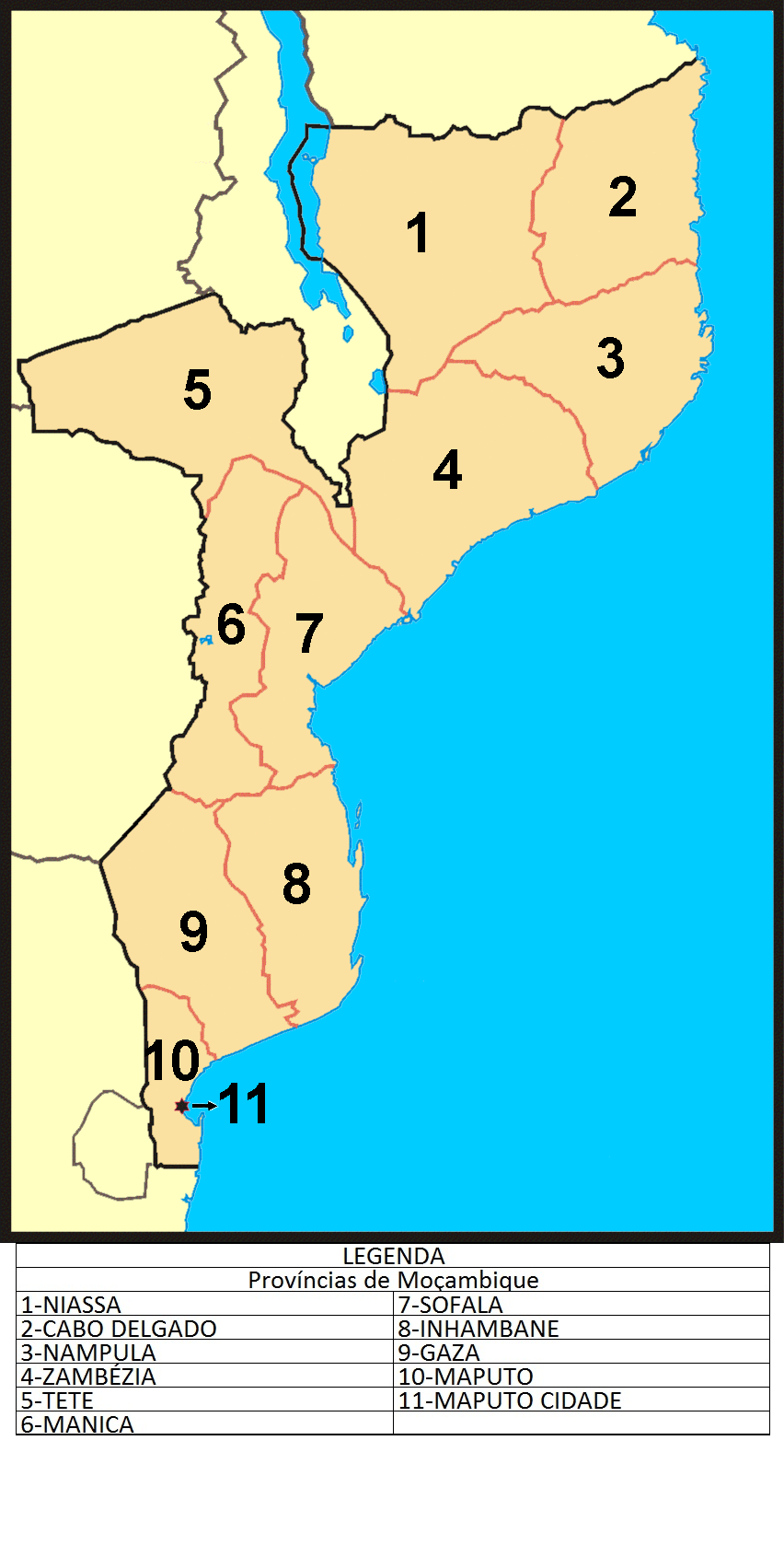 Provinces of Mozambique, North to South, by number with index